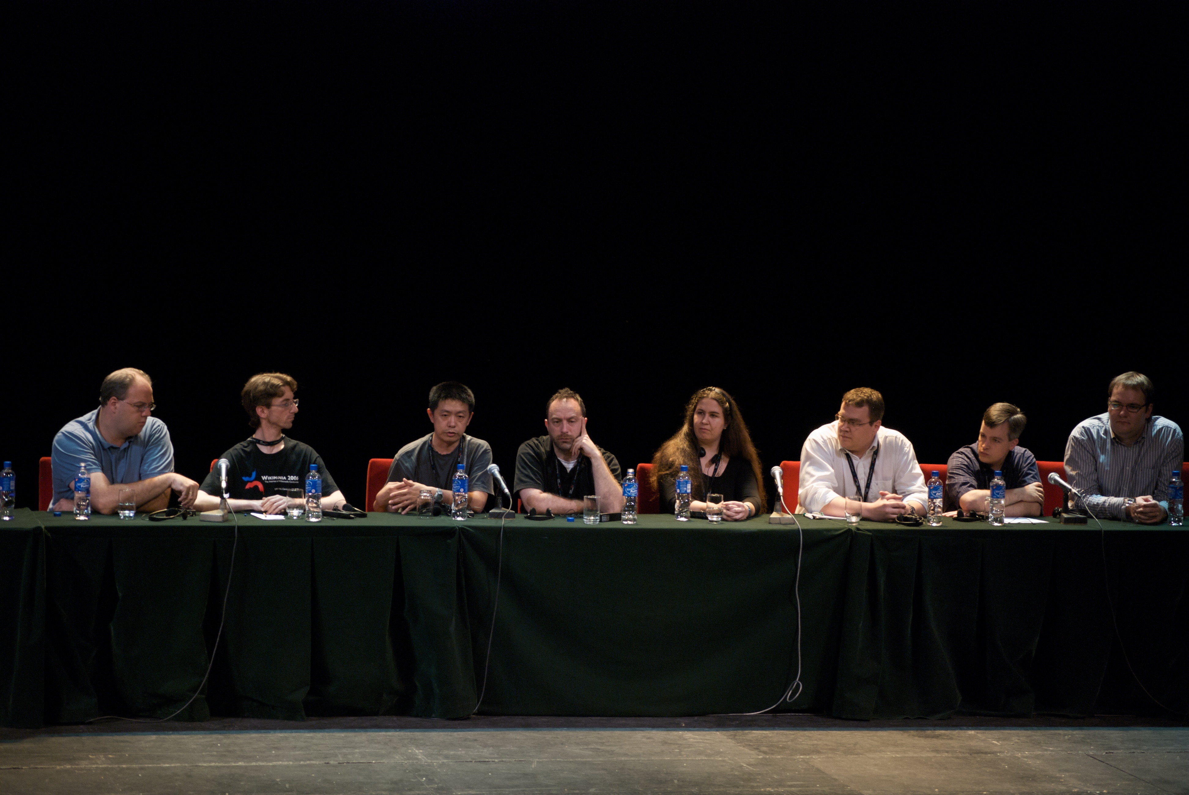 From left to right: Jan-Bart de Vreede, Samuel Klein, Ting Chen, Jimmy Wales, Kat Walsh, Arne Klempert, Michael Snow, and Domas Mituzas. Taken by Beatrice Murch (User:blmurch).